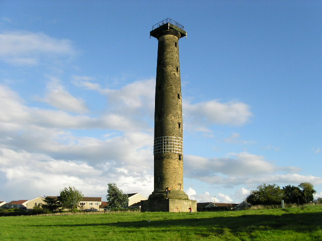 Keppel's Column, Thorpe Hesley, Rotherham in South Yorkshire